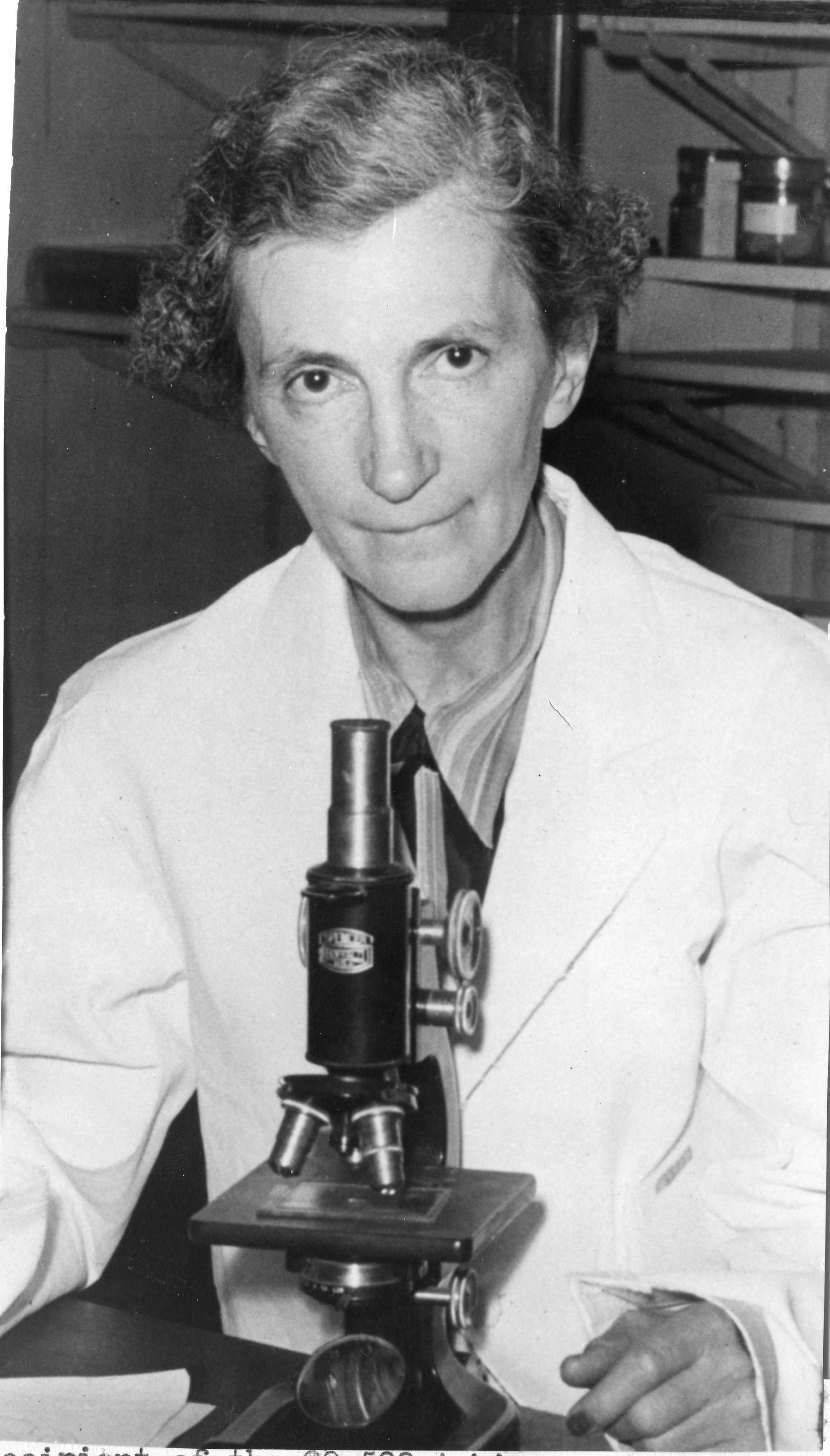 Description: A well-known authority on the anatomy of the brain, Elizabeth Caroline Crosby (1888-1983) was first woman to receive a full professorship at the University of Michigan Medical School and was a recipient of the National Medal of Science in 1979. This photo was distributed in connection with her 1950 award from the American Association of University Women. Creator/Photographer: Unidentified photographer Medium: Black and white photographic print Persistent URL: Repository: Smithsonian Institution Archives Collection: Accession 90-105: Science Service Records, 1920s ��� 1970s - Science Service, now the Society for Science & the Public, was a news organization founded in 1921 to promote the dissemination of scientific and technical information. Although initially intended as a news service, Science Service produced an extensive array of news features, radio programs, motion pictures, phonograph records, and demonstration kits and it also engaged in various educational, translation, and research activities. Accession number: SIA2008-0729